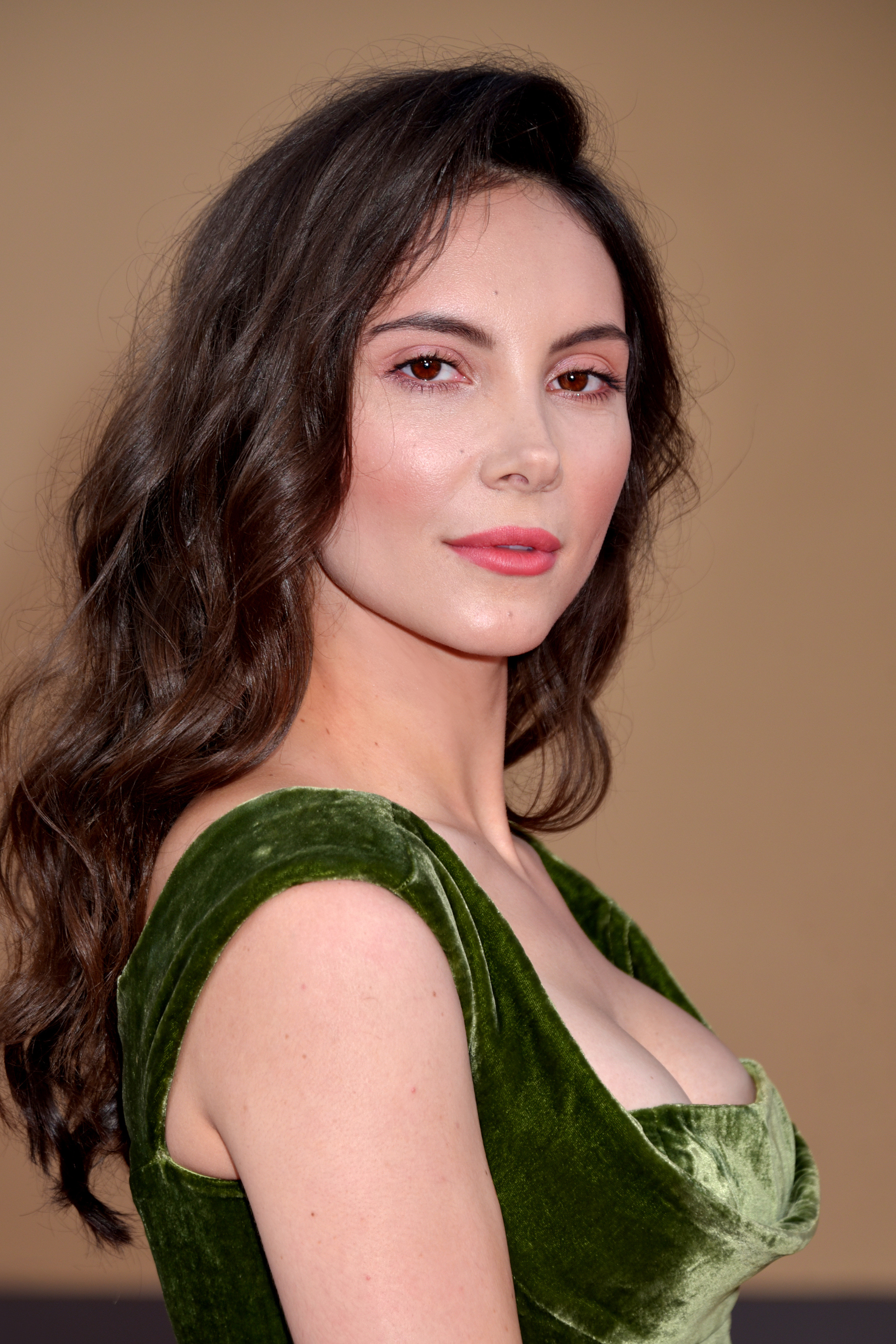 Samantha Robinson at the "Once Upon A Time In Hollywood" premiere in Hollywood California on July 22, 2019 - Photo by Glenn Francis of